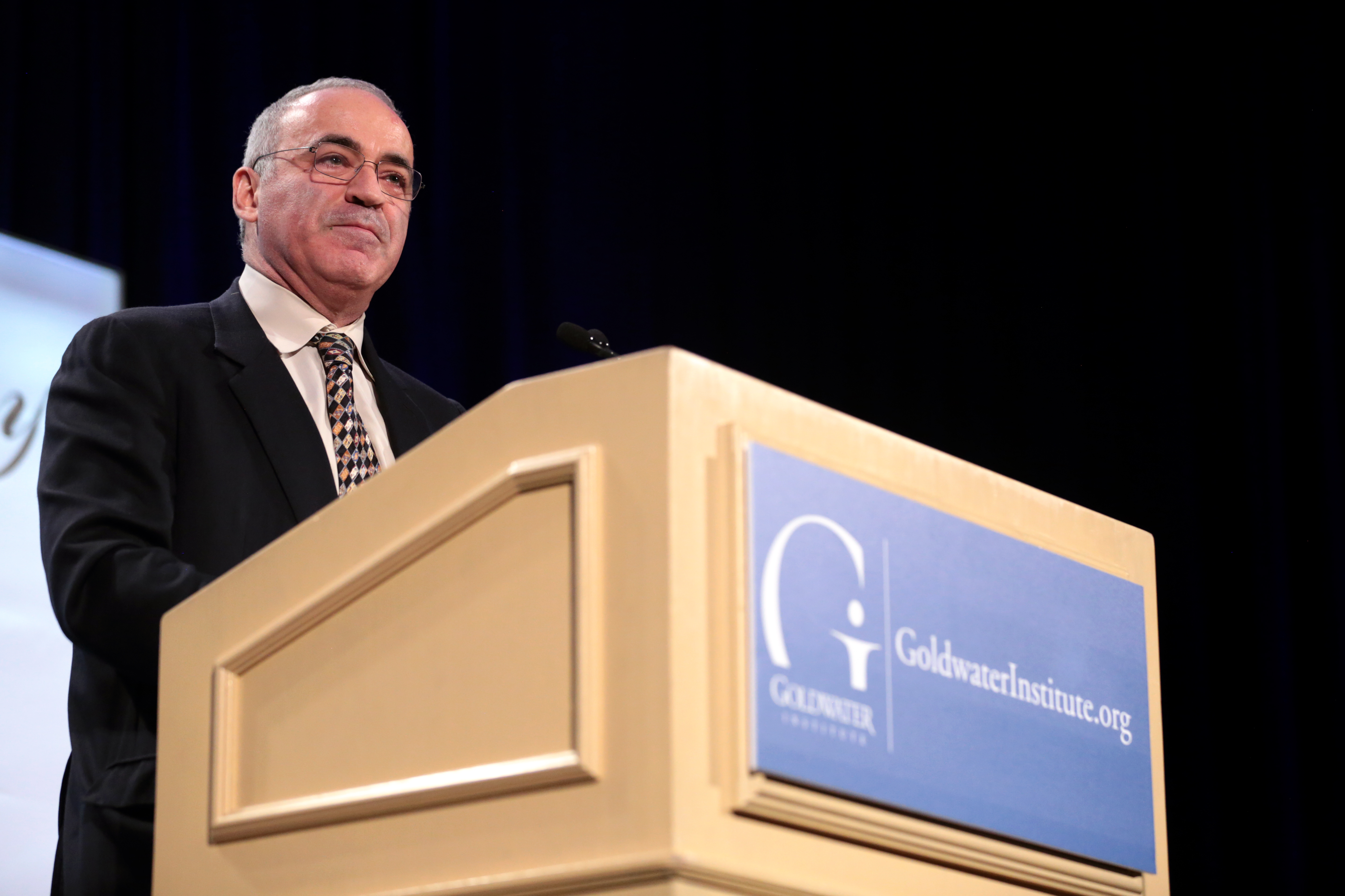 Garry Kasparov speaking at the 2017 Goldwater Dinner hosted by the Goldwater Institute at the Phoenician Resort in Scottsdale, Arizona.